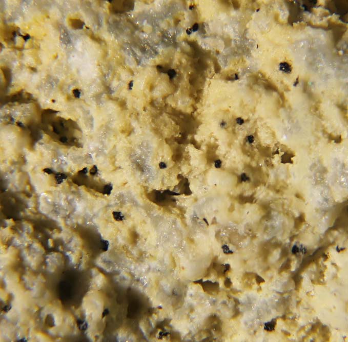 Very dark red, almost black, microcrystals of the rare mineral macaulyite on a contrasting matrix of illite and kaolinite. From: Bennachie, Inverurie, Buchan Grampian, Scotland, United Kingdom. Ex-British Museum Natural History London specimen.